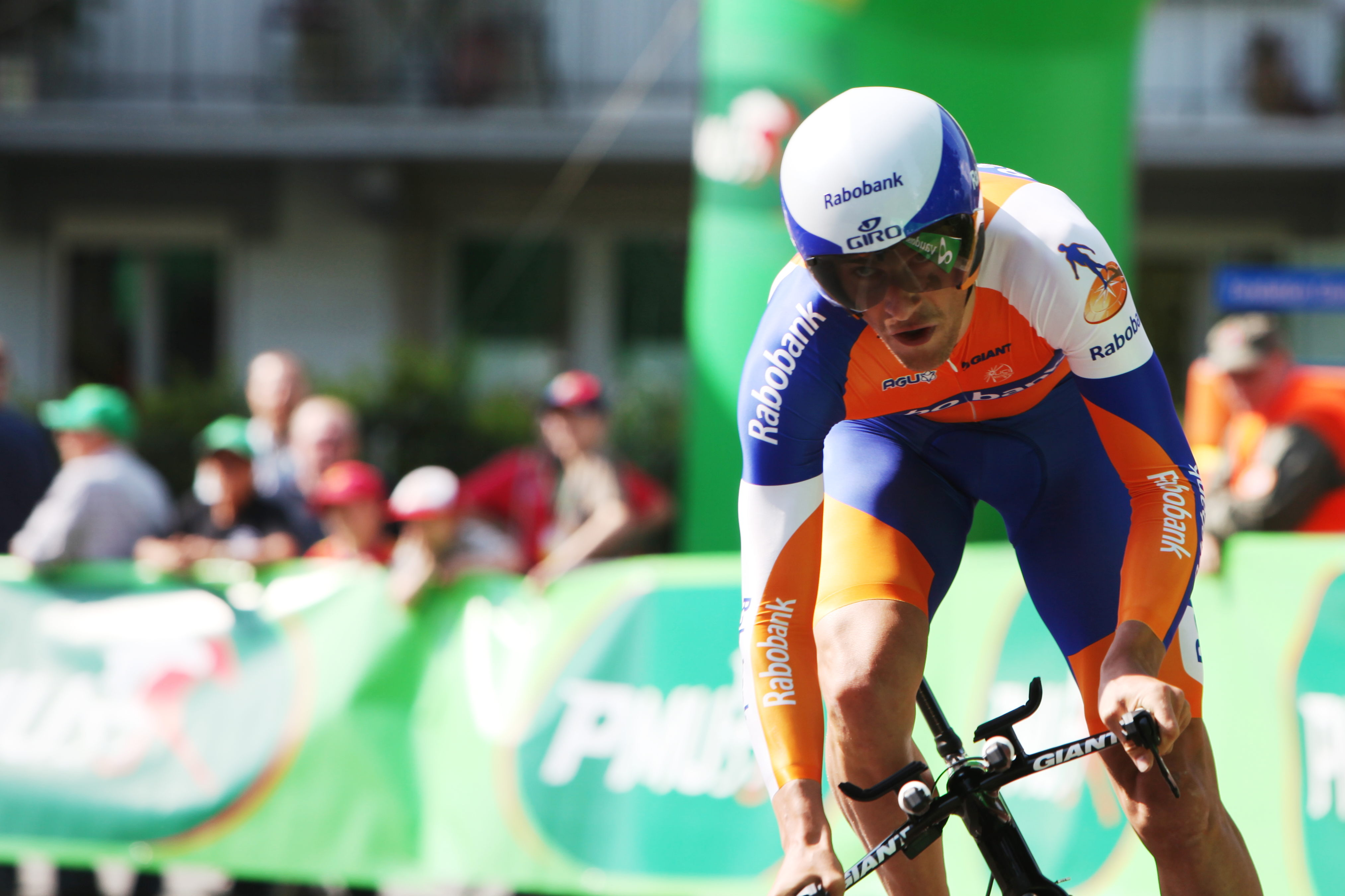 Denis Van Winden at the prologue of the Tour de Romandie 2011